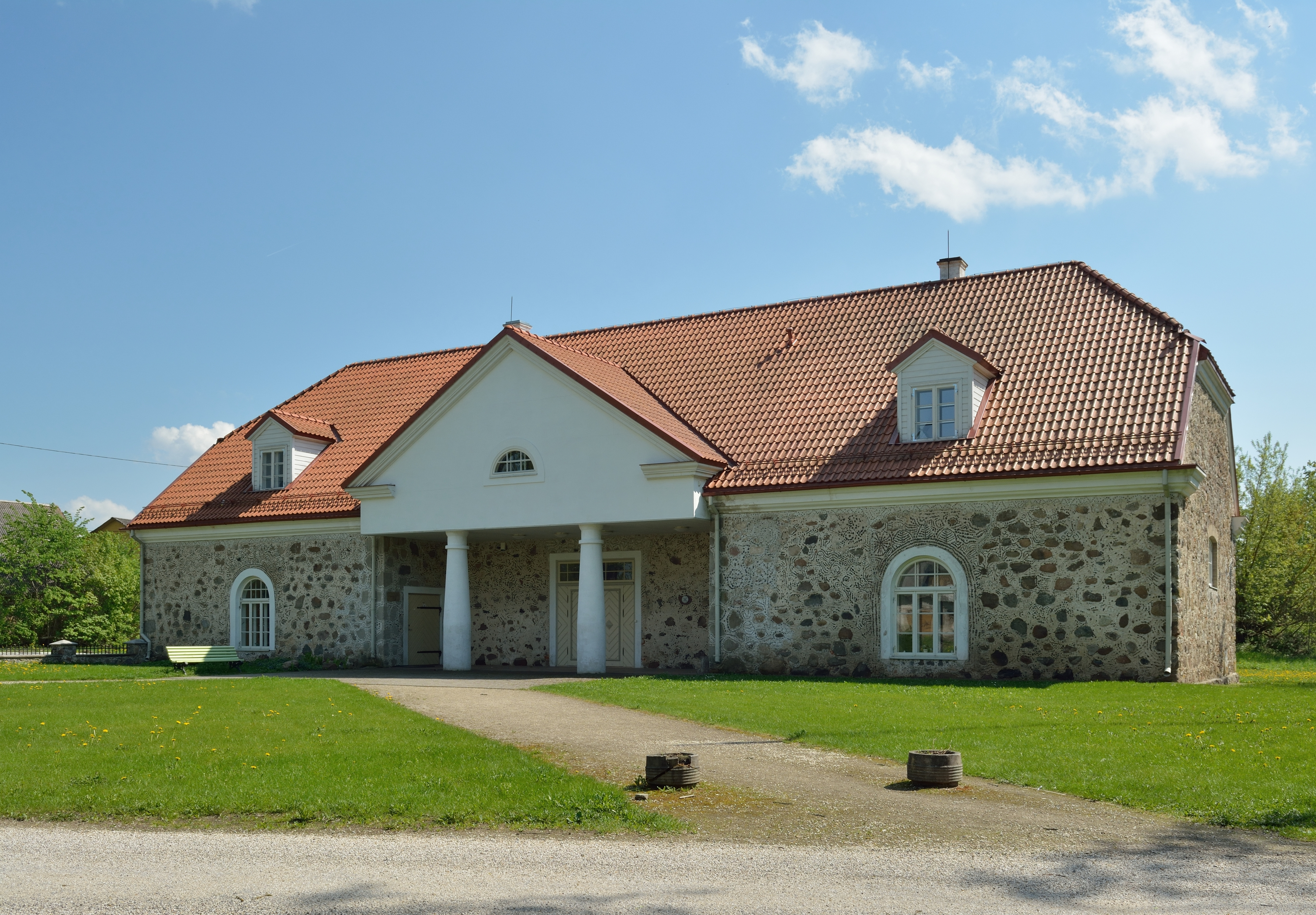 Vaimastvere manor granary